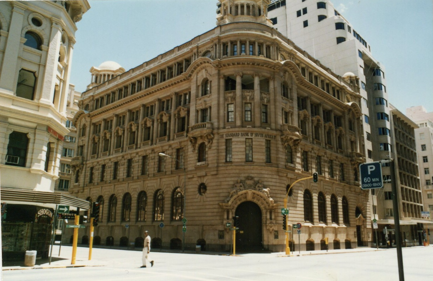 This is the Standard Bank Building in the city of Johannesburg, Marshallstown. It is part of the Joburgpedia and the Johannesburg Heritage Foundation project where archived documents and pictures of the city of Johannesburg are being digitized